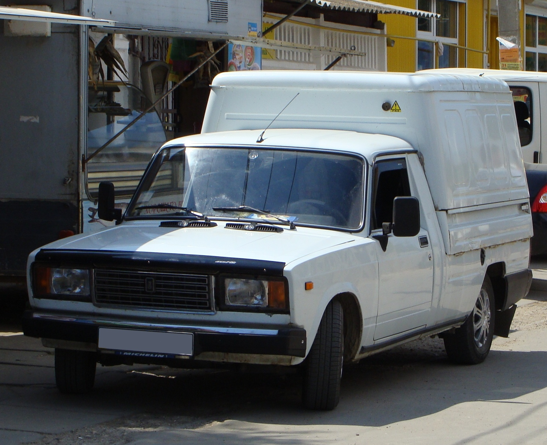 Panel van Izh-27175